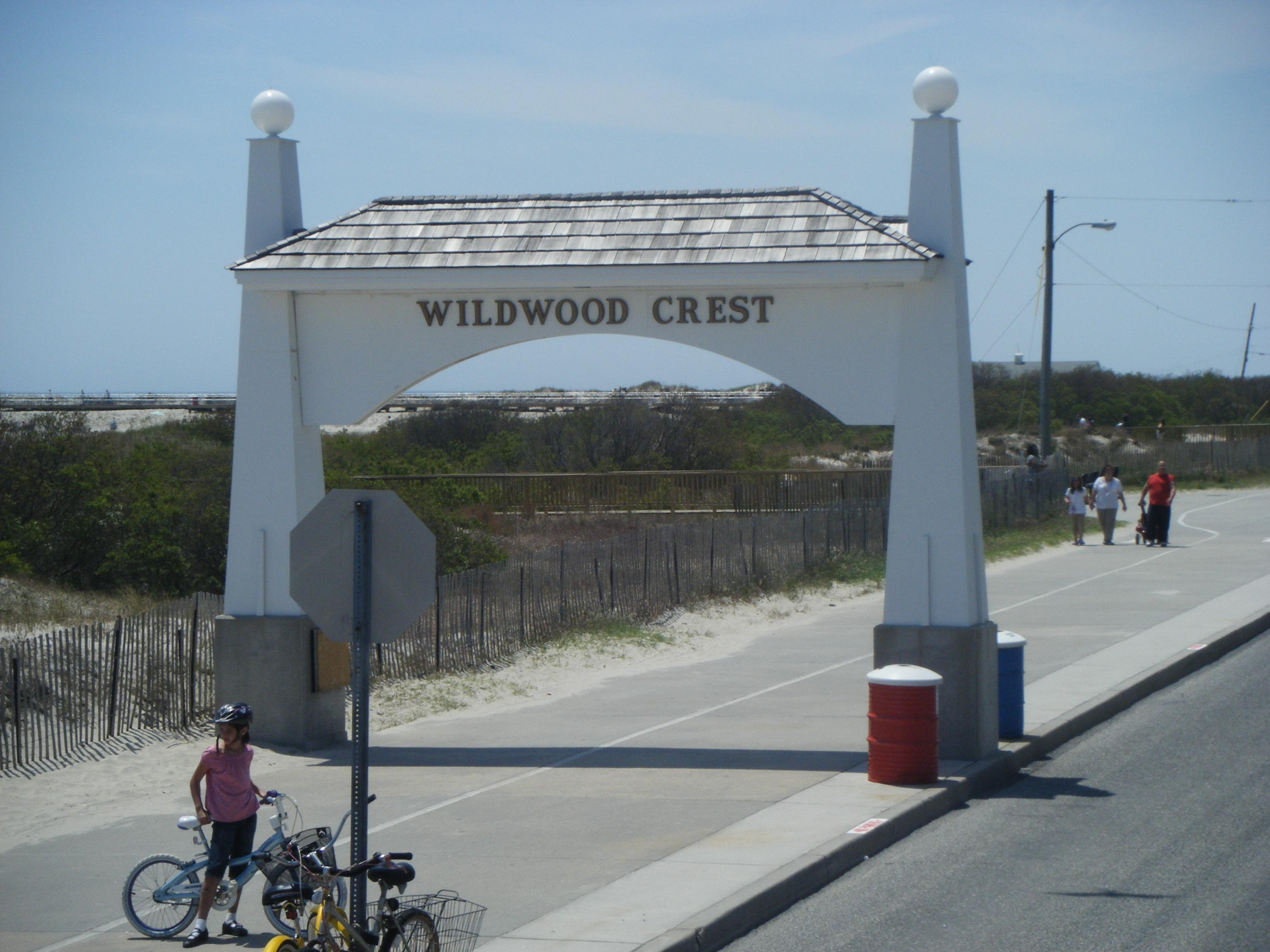 The arch to Wildwood Crest, New Jersey along the beach at the border with Wildwood, taken on Memorial Day 2008.